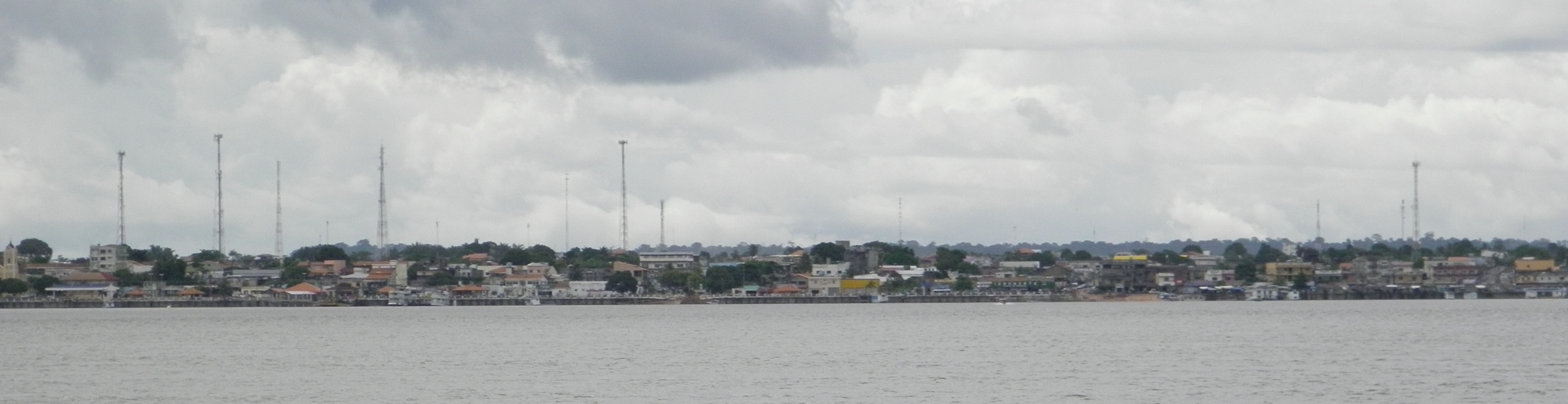 Front View of Itaituba, Brazil